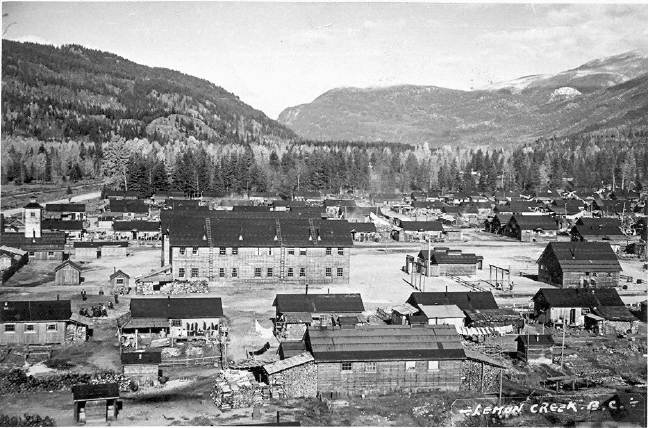 The Lemon Creek Internment Camp, 1944-1945, constructed specifically to intern Japanese Canadian families. The school in the centre held classes for kindergarten-grade 12. Photos courtesy of Diana Domai